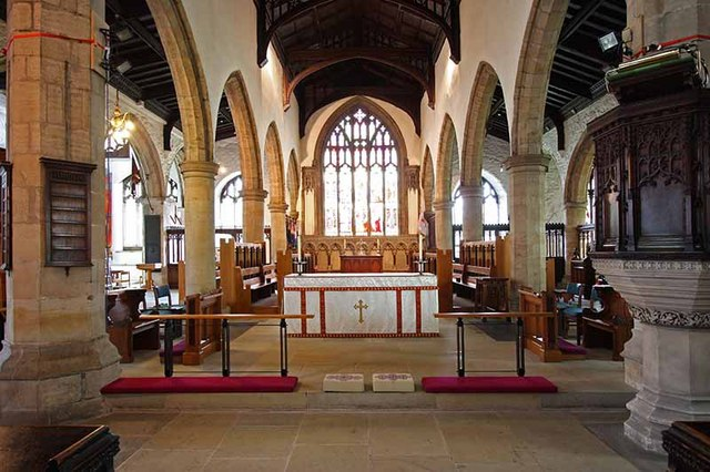 Holy Trinity Church, Kendal, Cumbria - Chancel